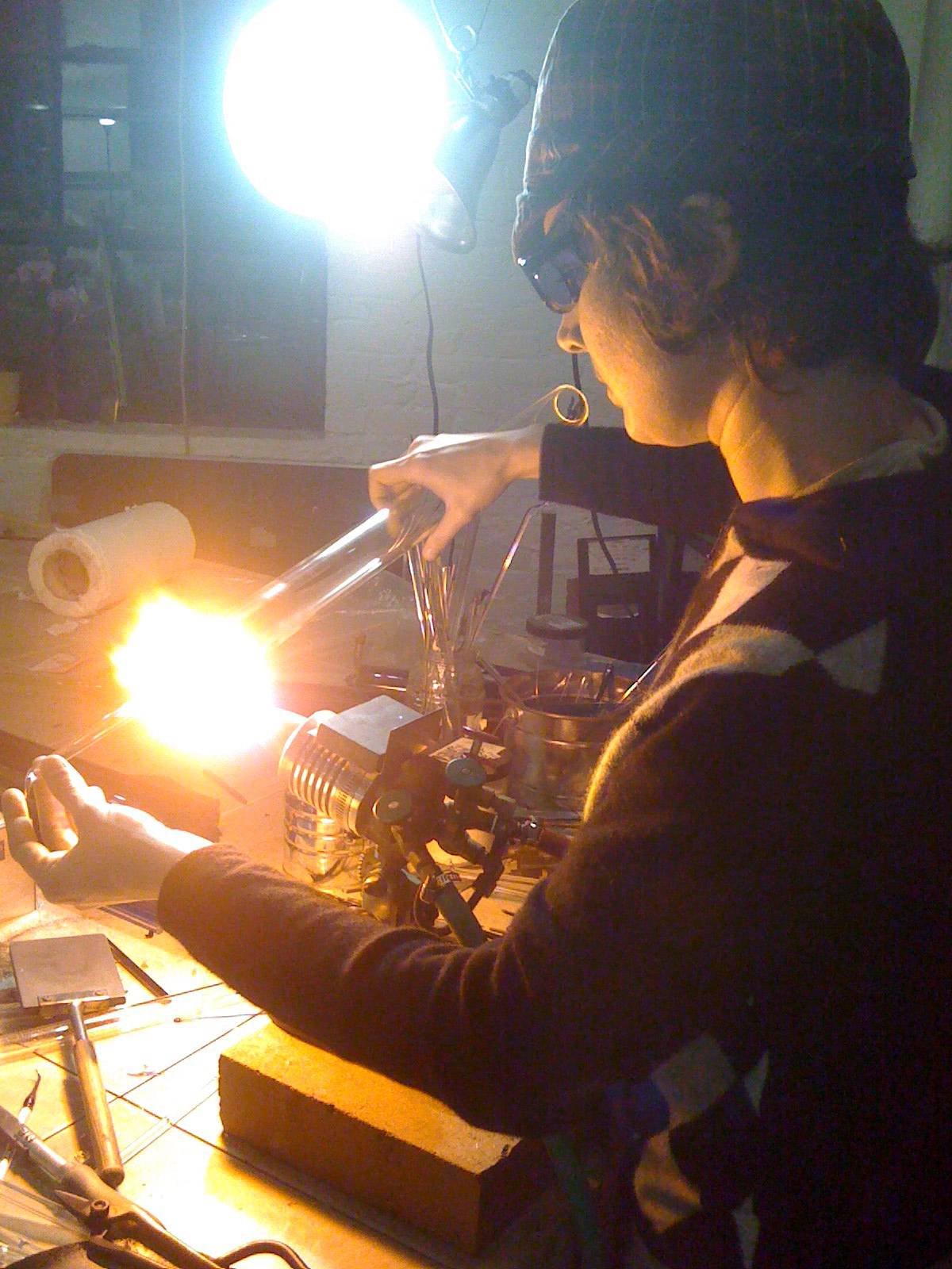 Mandy took me to her glass studio, where she showed me the basics of working with glass. She has incredible talent for this - there's a style of dexterity and material manipulation she has. Awesome.